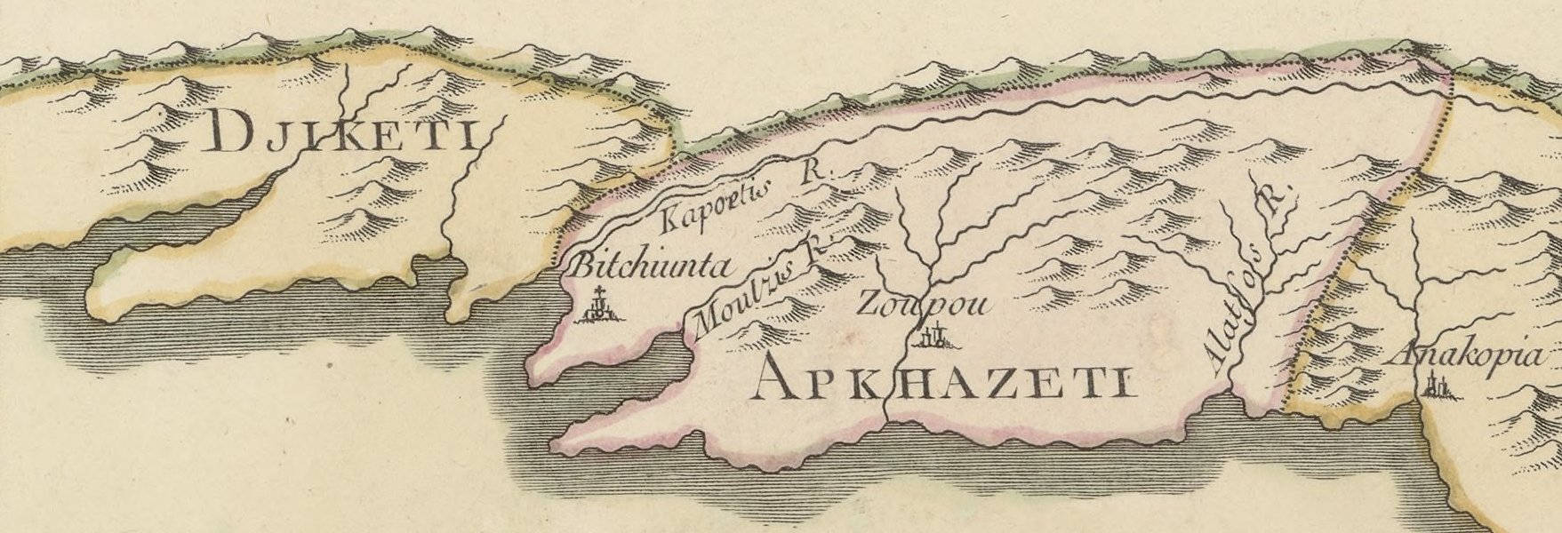 Carte générale de la Georgie et de l'Arménie / dessinée à Petersbourg en 1738 d'après les cartes, mémoires, mesures et observations des gens du pays ; traduit du géorgien en françois par le secrétaire du roi de Georgie ; publiée en 1766 par M. Joseph Nicolas Del'Isle.